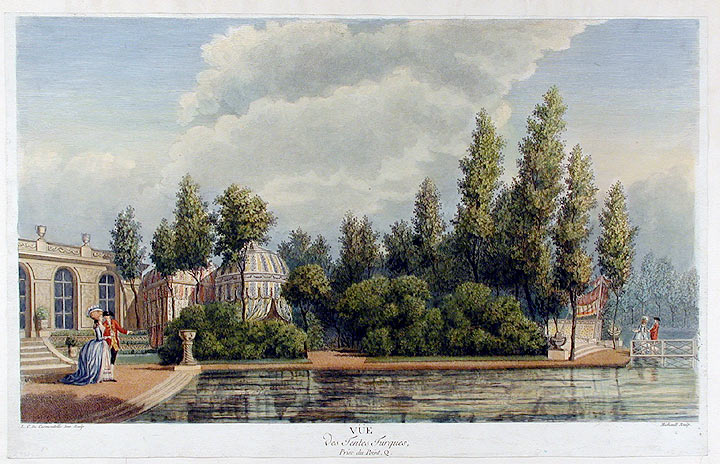 "Vue des tentes turques" (Turkish tents in the Parc Monceau, Paris). Hand-coloured engraving by Jean-Baptiste Delafosse after a painting by Carmontelle.